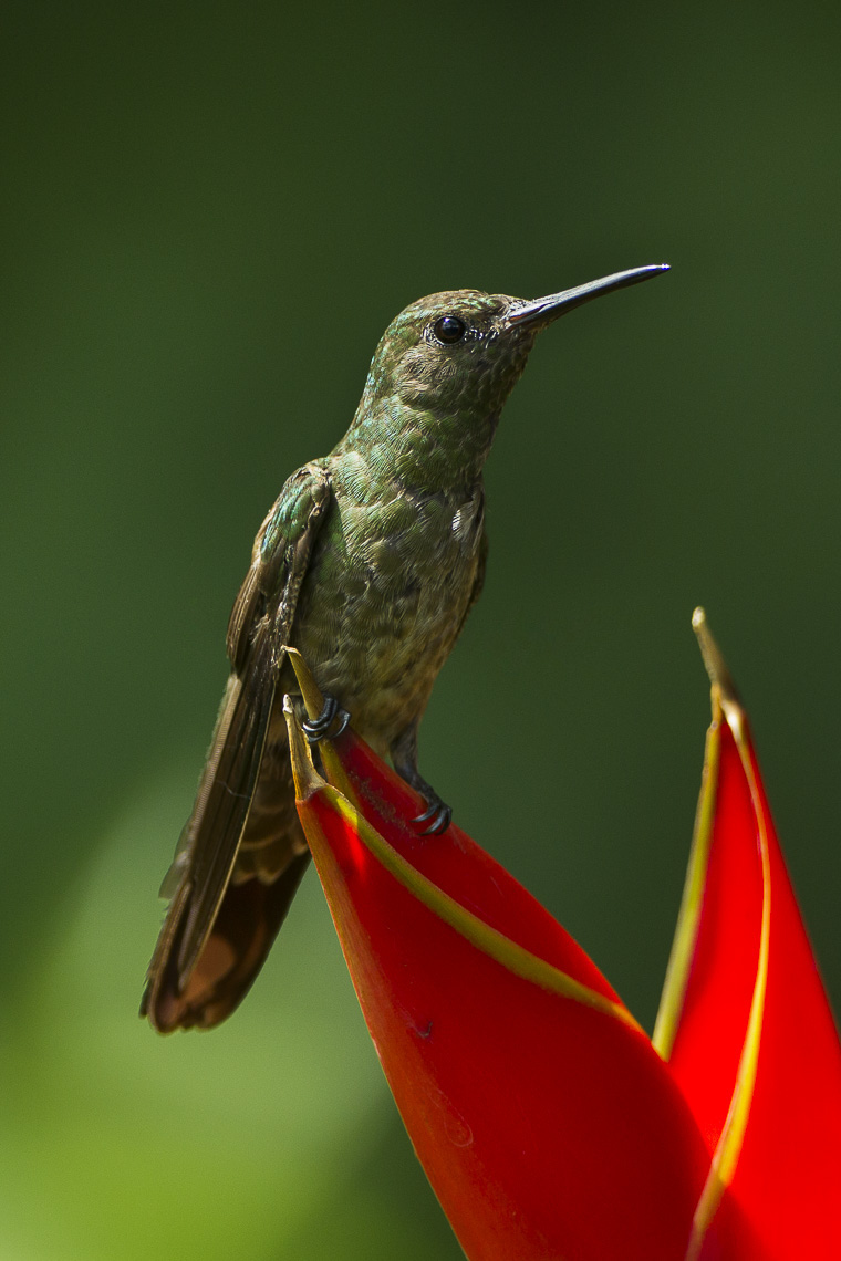 Scaly-breasted Hummingbird - Sarapiqui - Costa Rica_S4E0291